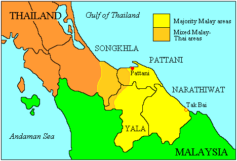 Map showing the ethnic distribution in southern Thailand